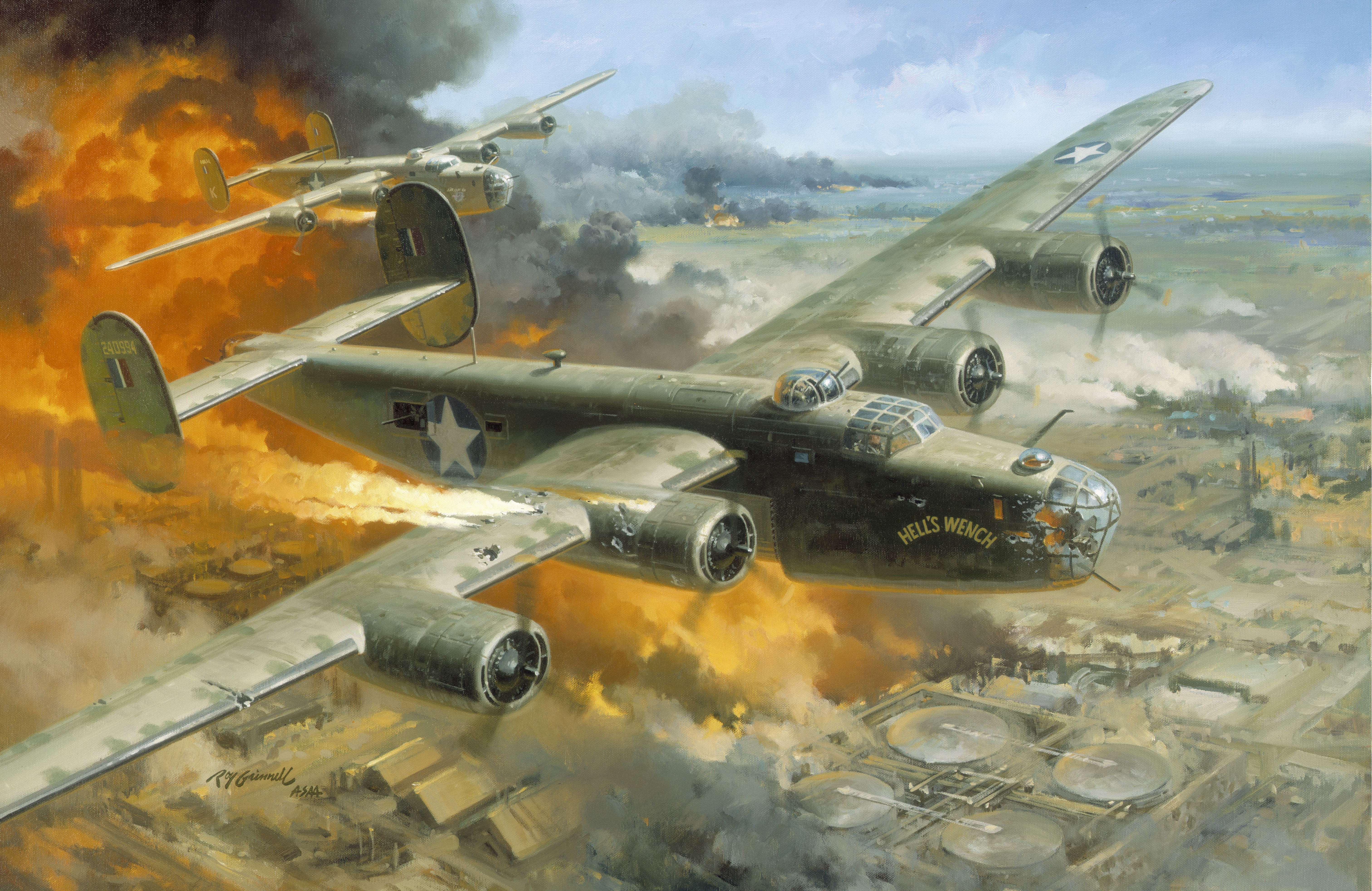 Ploesti, Romania, August 1, 1943 -- "Hell's Wench," a B-24 badly damaged by anti-aircraft artillery fire, led the 93rd Bombardment Group (Heavy) in its daring low level attack on the oil refineries at Ploesti, Romania which supplied two-thirds of Germany's petroleum production at that stage of World War II. Lieutenant Colonel Addison E. Baker, an Ohio National Guardsman who commanded the 93rd, ignored the fact he was flying over terrain suitable for safe landing. He refused to break up the lead formation by landing and led his group to the target upon which he dropped his bombs with devastating effect. Then he left the formation but his valiant attempts to gain enough altitude for the crew to escape by parachute failed and the aircraft crashed. For their gallant leadership and extraordinary flying skill both Baker and his pilot, Major John L. Jerstad, received the Medal of Honor posthumously. The raid, nicknamed "Operation Tidalwave," was costly with 54 of the 177 bombers lost and 532 of the 1,726 personnel engaged listed as dead, missing or interned. Baker's service epitomized the role of National Guard aviators during World War II. Because of their experience, most of them were transferred from their 29 pre-war observation squadrons after mobilization. As individuals, they helped train and lead the huge numbers of volunteer airmen who served in Army Air Forces units during the war. Baker and other Guard aviators carried on a long tradition of dedicated service to the states and nation.